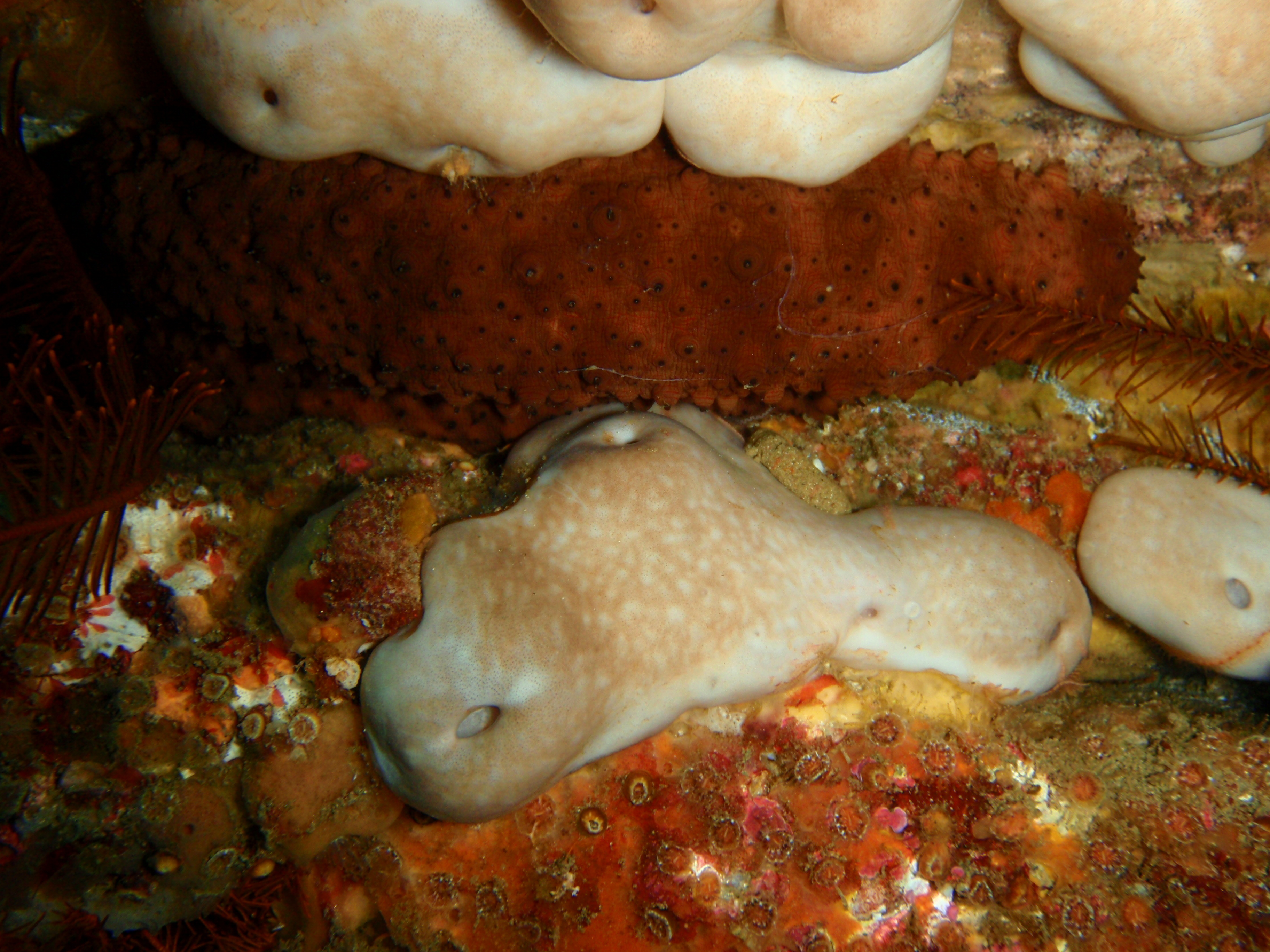 Australostichopus mollis Southern sea cucumber at Governor Island, Bicheno, Tasmania